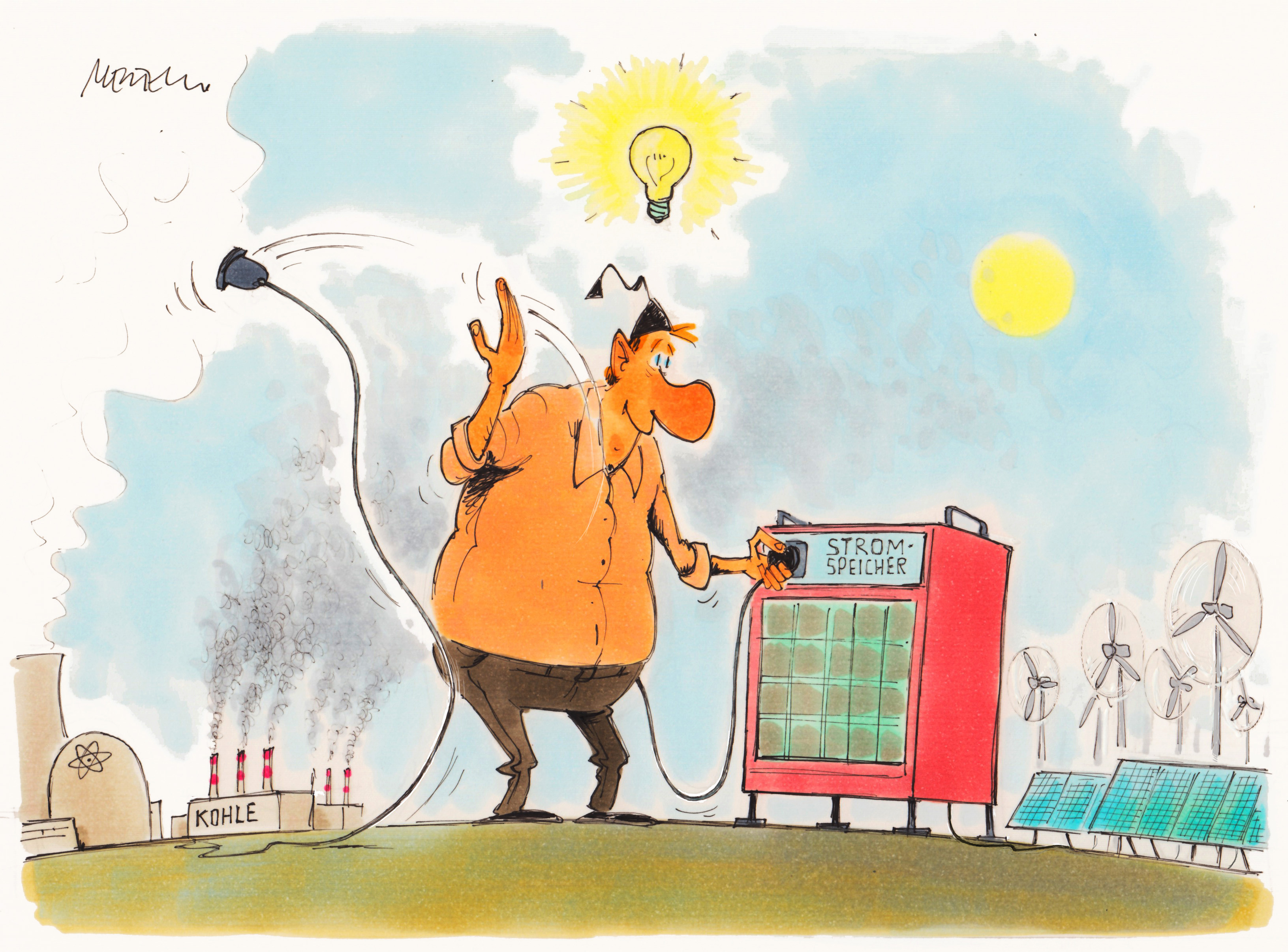 Cartoon by Gerhard Mester on "Electricity storage for the so called Energiewende" - text: KOHLE = coal / STROMSPEICHER = electricity storage